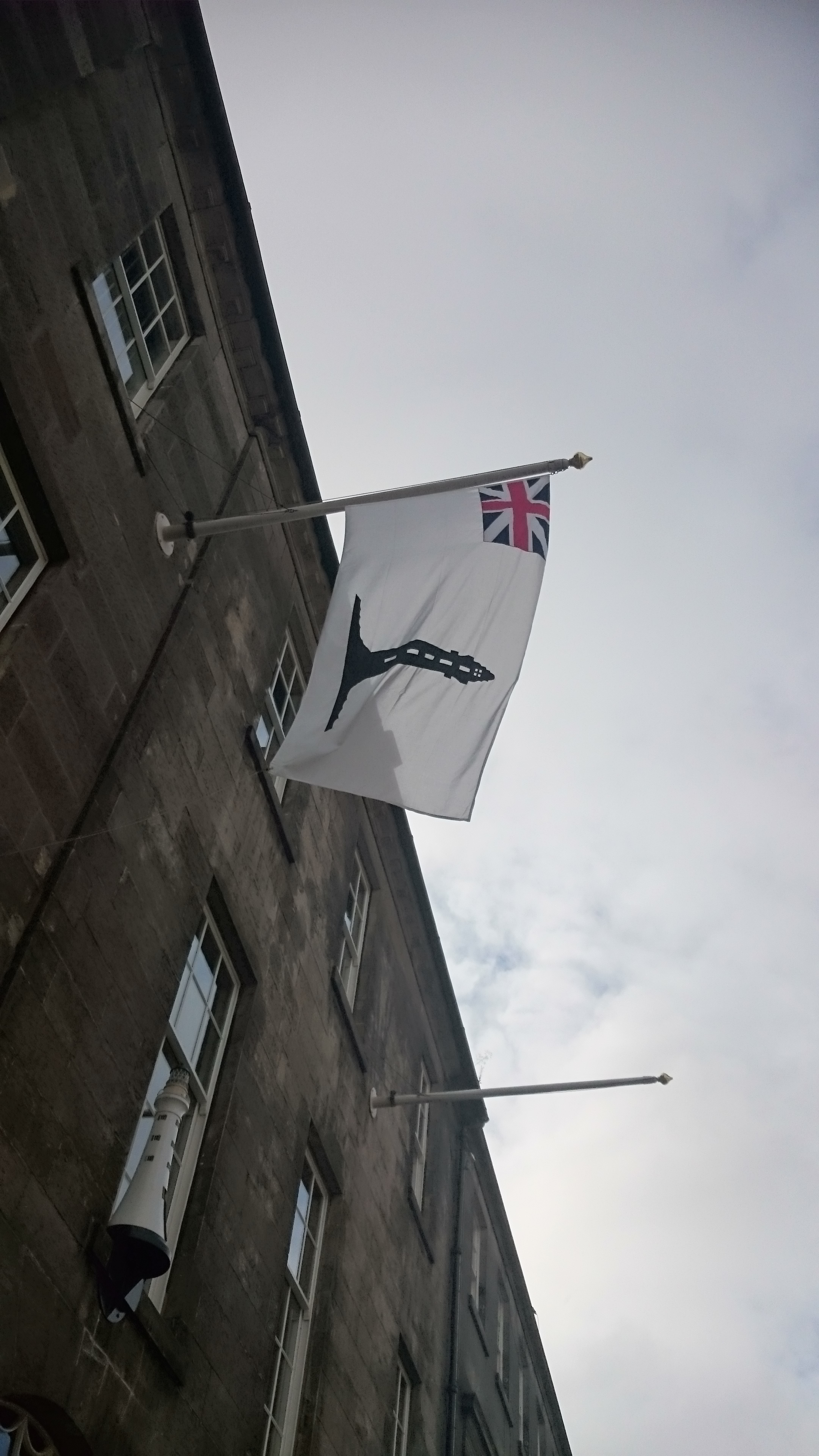 Commissioner's Ensign of the Northern Lighthouse Board. Flown outside the NLB HQ, George Street. Edinburgh.